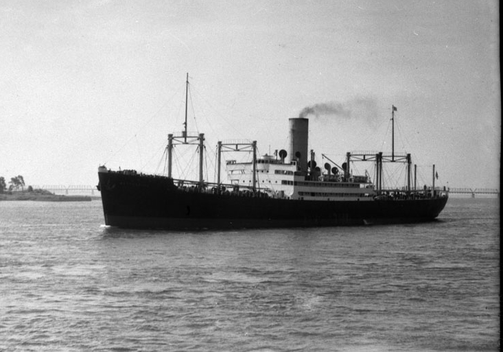 SS Beaverford, Canadian Pacific Steamship, photographed at Montreal, 1933